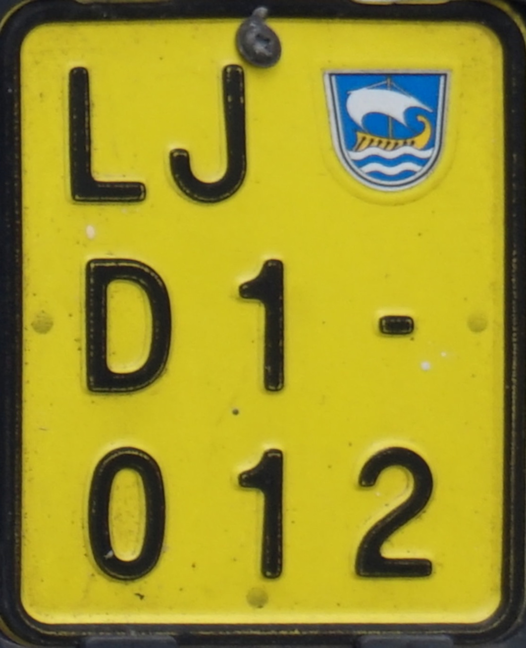 Some form of a Slovenian number plate. One of the older available registration laws[2] describes yellow plates with black characters and dimensions 105,5 × 130 mm to be moped plates, while this one was photographed on some kind of a miniature three-wheel lorry.